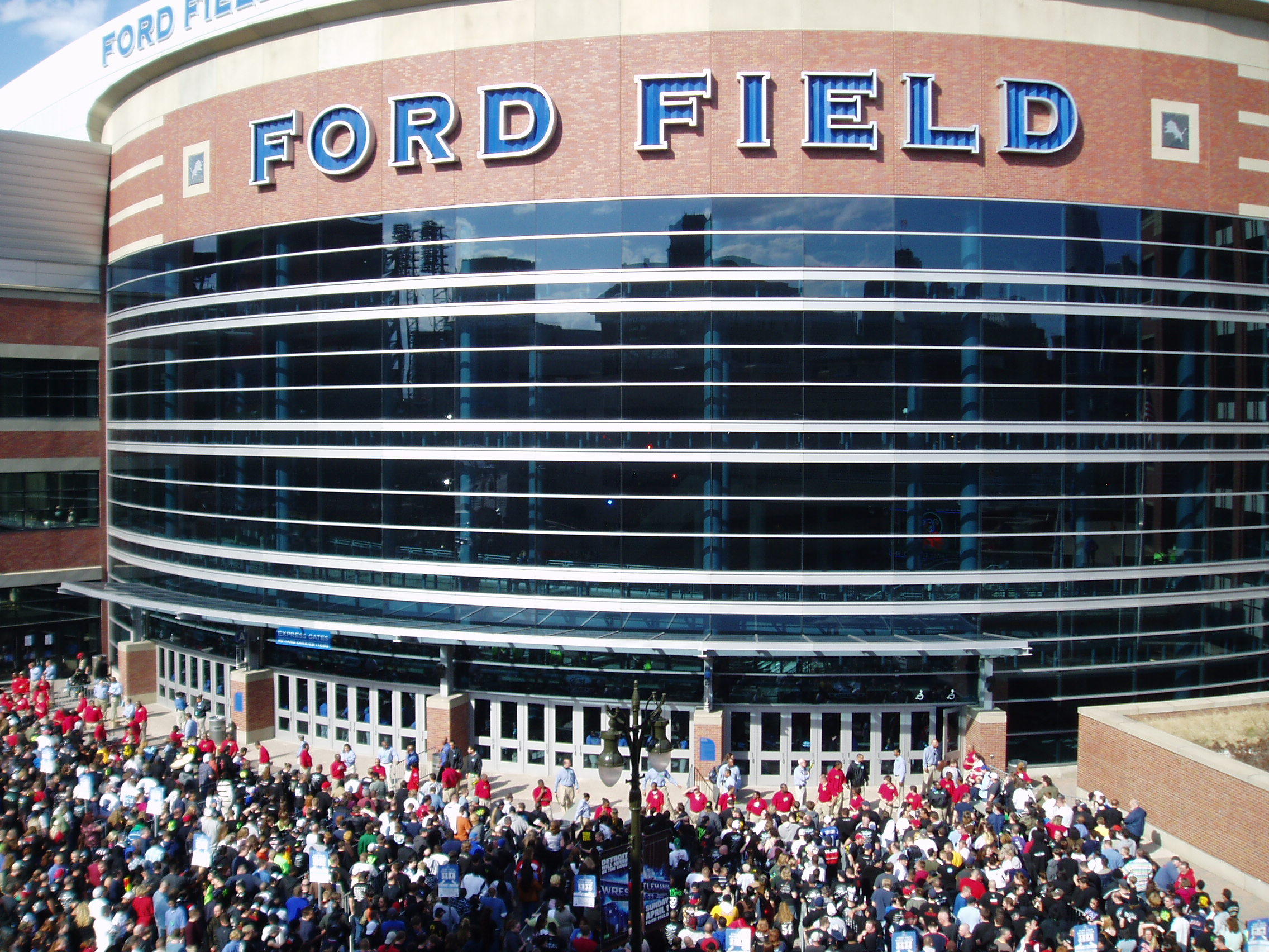 I took this photo on 4/1/07 in Detroit.